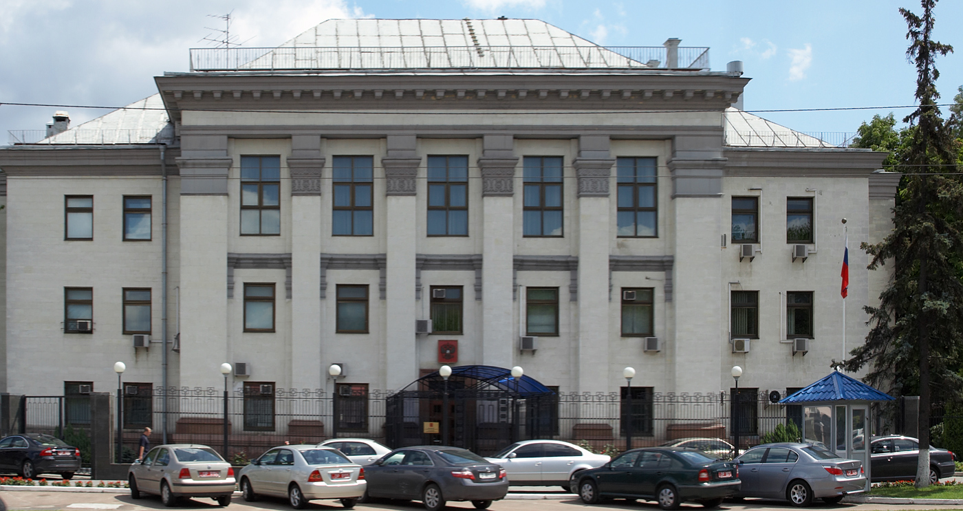 Embassy of Russia in Kiev, Ukraine